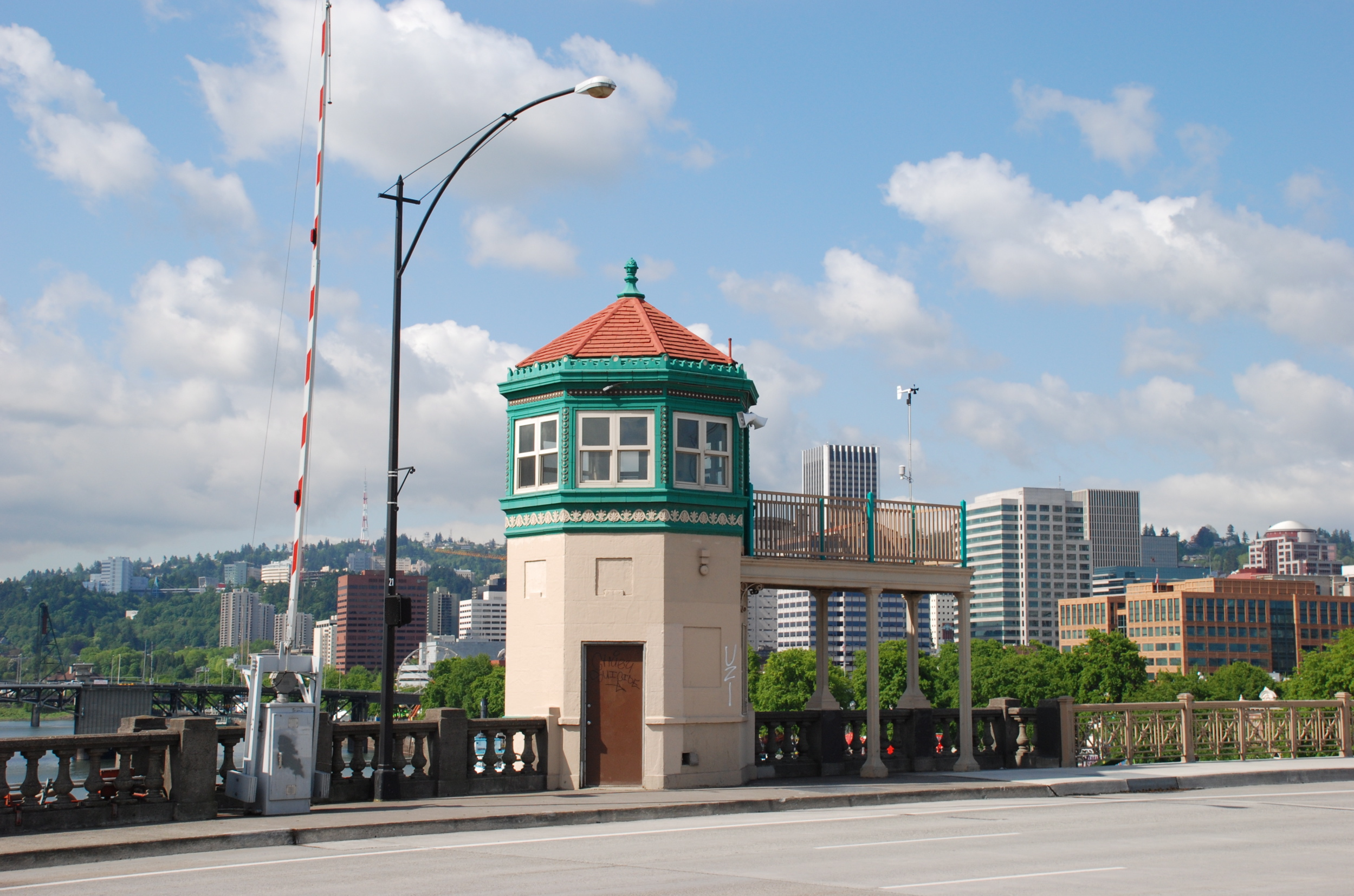 The east tower of the Burnside Bridge, in Portland, Oregon, looking southwestwards.